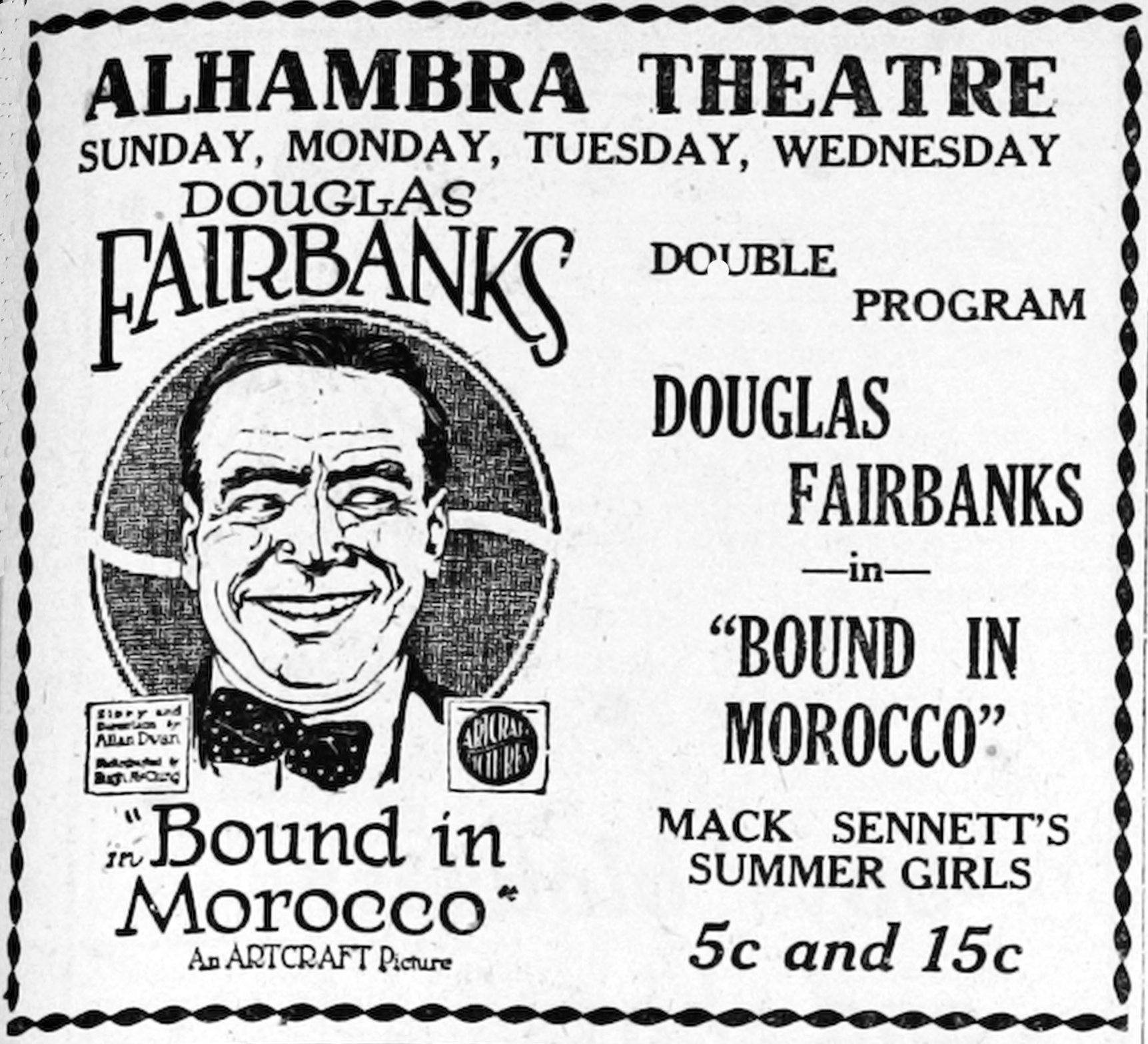 Bound in Morocco (1918) is a silent film comedy/drama starring Douglas Fairbanks. This is from an advertisement for the film.